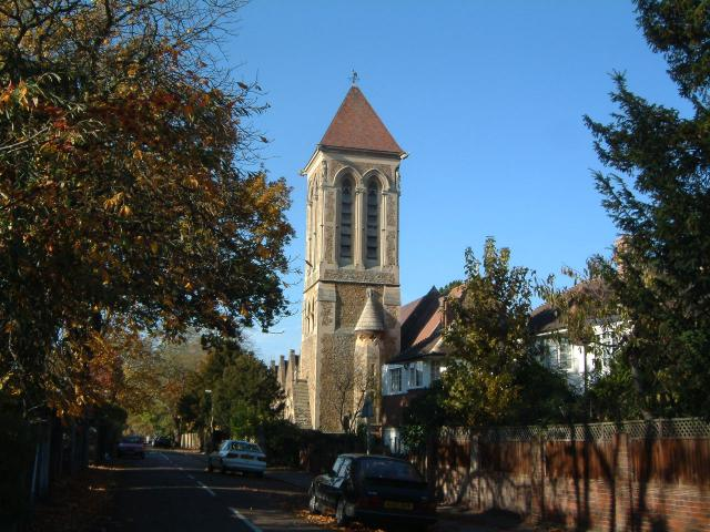 View west along part of Christchurch Road, East Sheen, southwest London, showing the southeast tower of Christ Church parish church